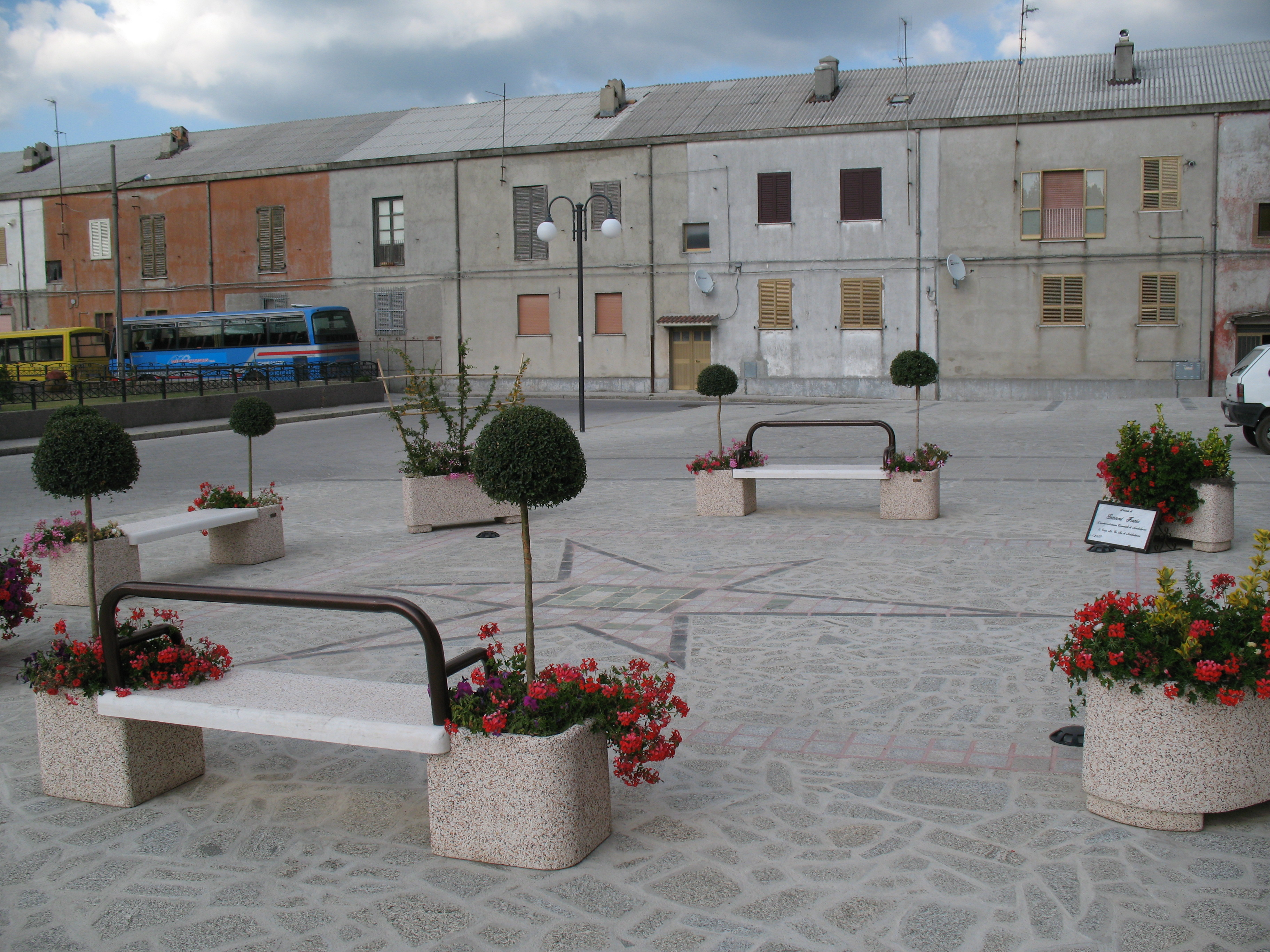 Nardodipace, piazza Municipio